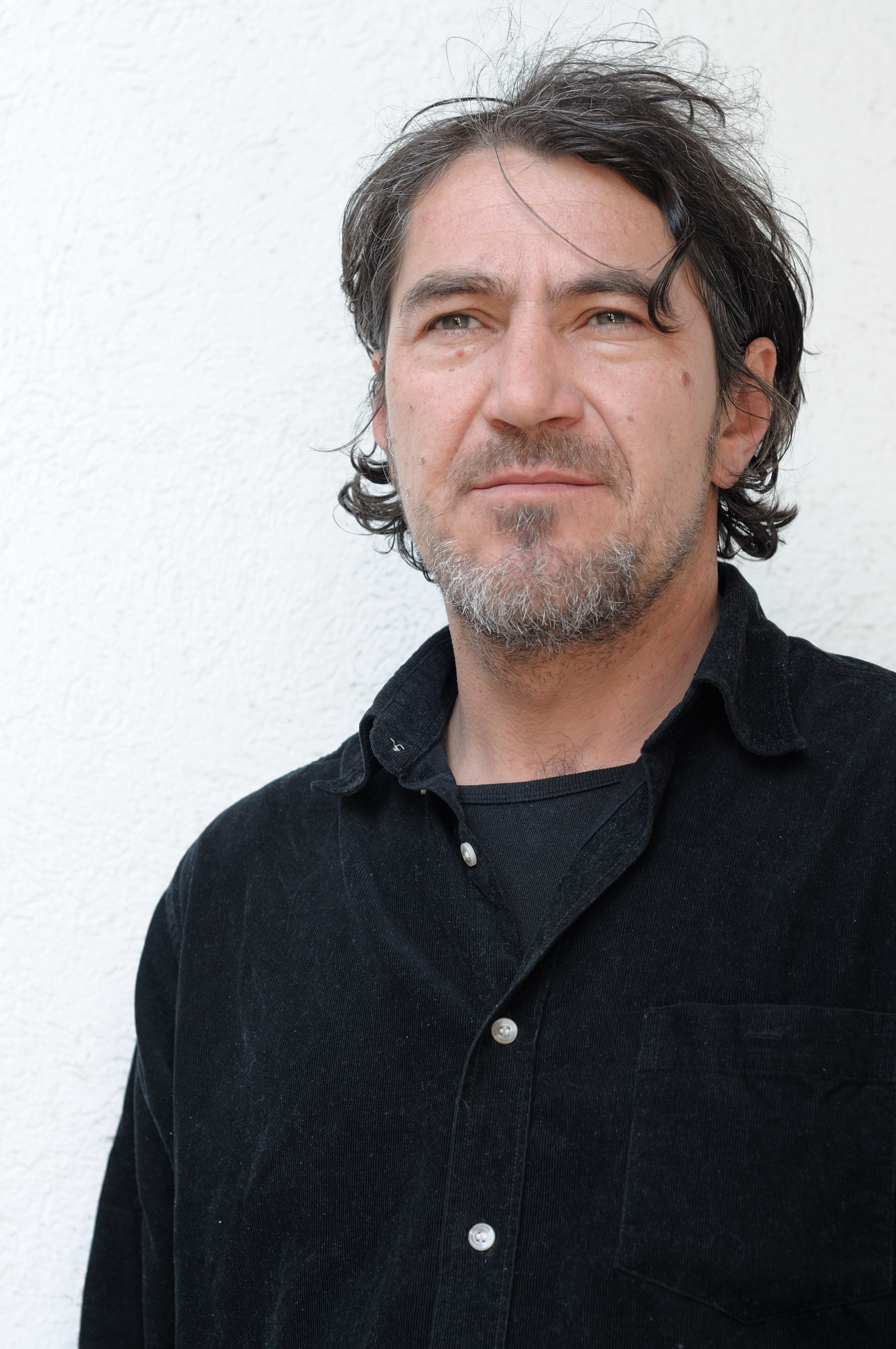 Portrait